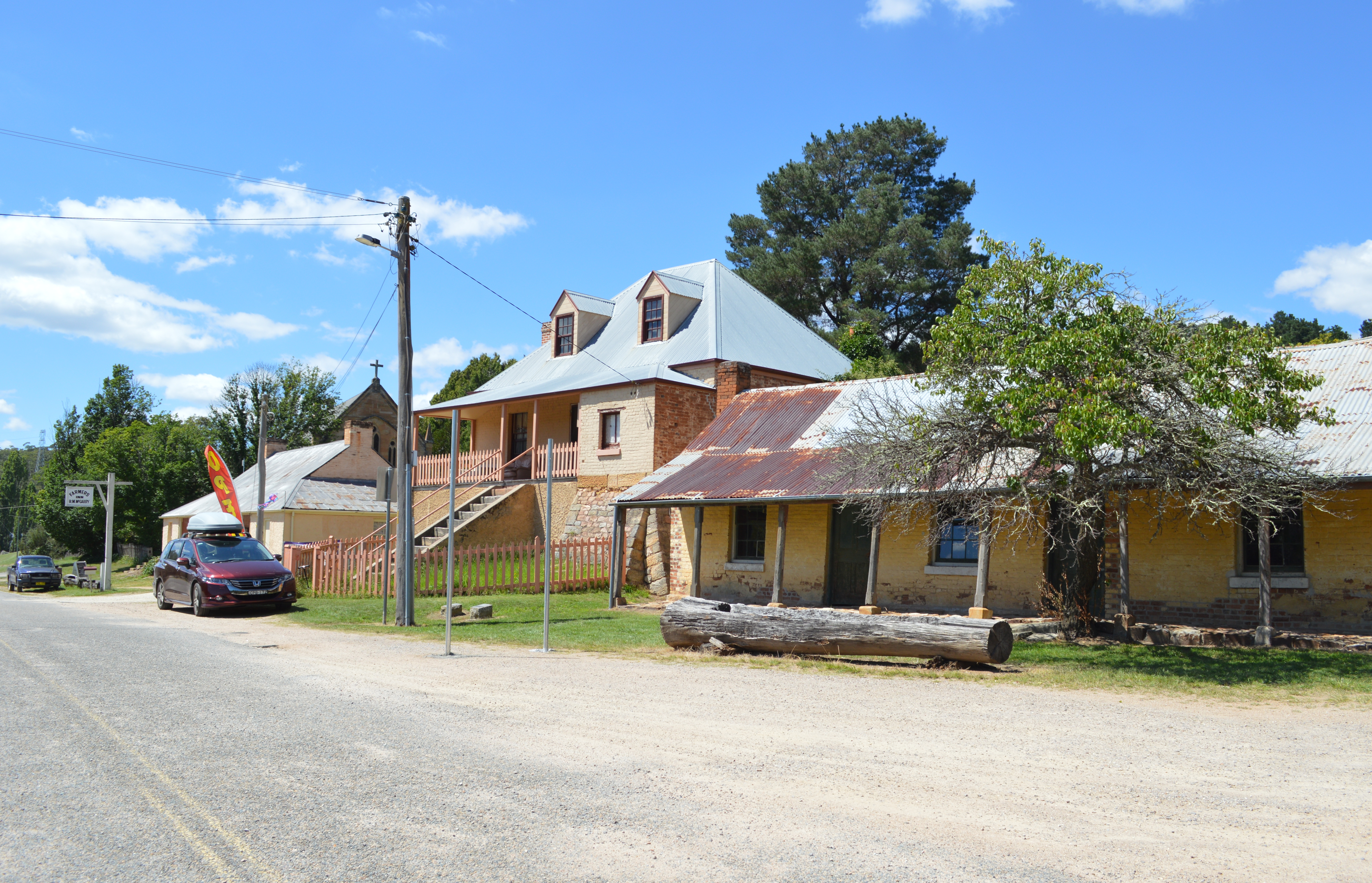 Old Bathurst Road, the main street of Hartley, New South Wales